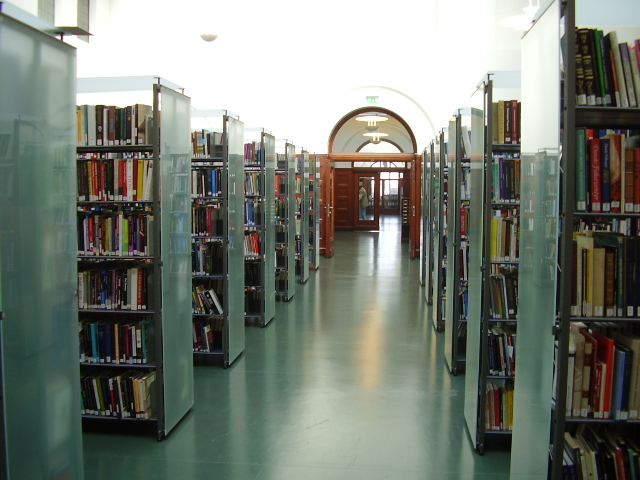 Nasjonalbiblioteket (National Library of Norway), Henrik Ibsens gate 110, Oslo. Built 1914-22 as the Oslo University Library. Architect: Holger Sinding-Larsen.